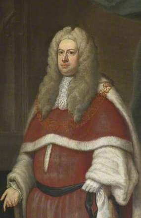 Lord Raymond (1673-1733), Lord Chief Justice